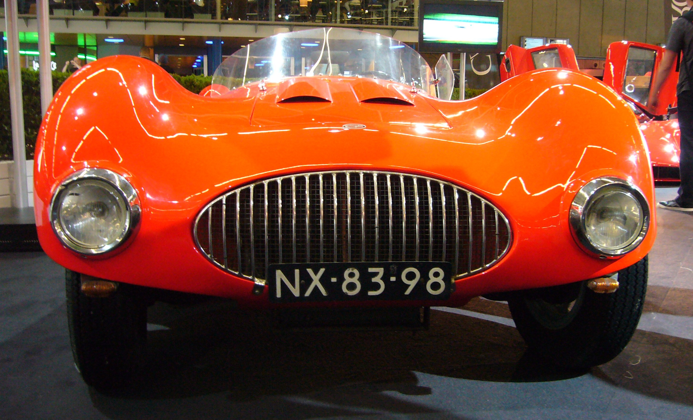 1948 Gatso 1500 Sport at AutoRAI Amsterdam 2011